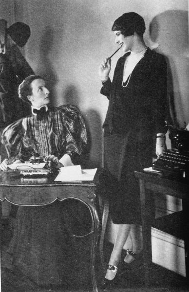 A staged and posed joke photo of a young lady in prim 1890s clothes (at left) pretending to be startled by a 1920s flapper (Lois Long, at right).